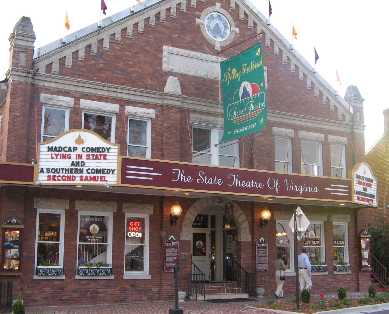 Photo taken by submitter Campaigner444 03:23, 16 April 2006 (UTC)